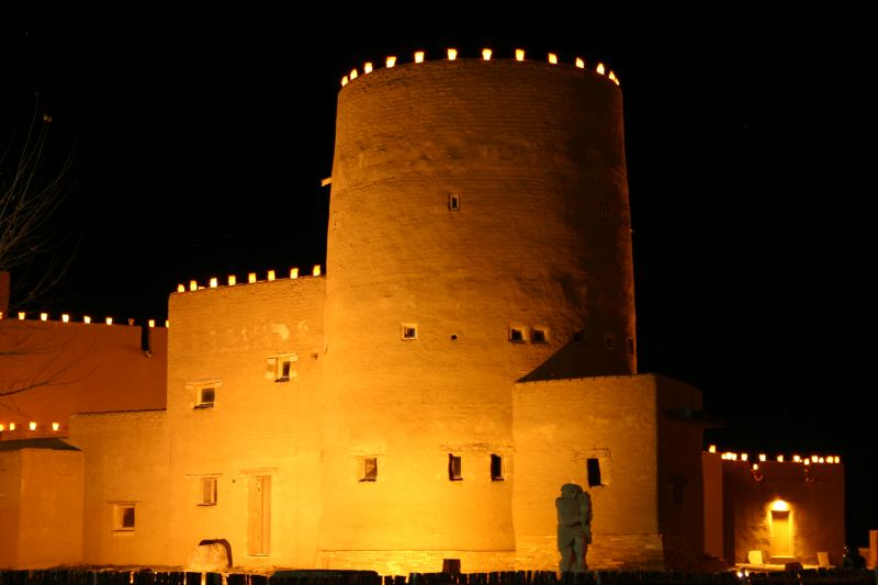 Poeh museum, just after christmas with the luminarias north of santa fe